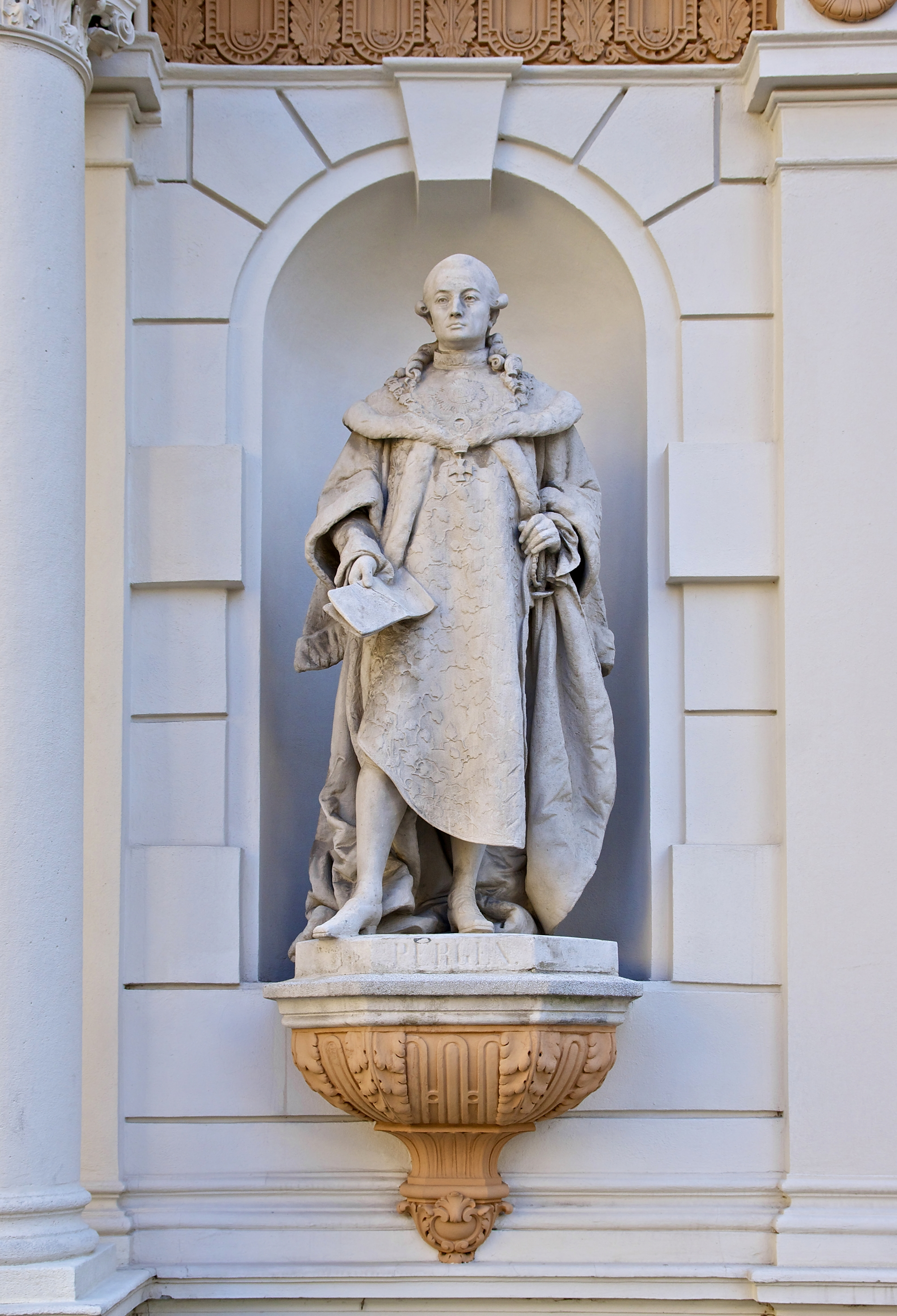 Johan Anton, count von Pergen (1725-1814), Counselor and Minister of Emperor Joseph II, was the organizer of the modern Police administration of Austria and especially Vienna. He wears the ceremonial robe of member of the Order of Leopold. Vienna, Austria.